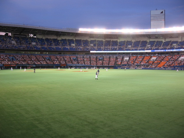 Professional Baseball Night games in Chiba Marine Stadium.